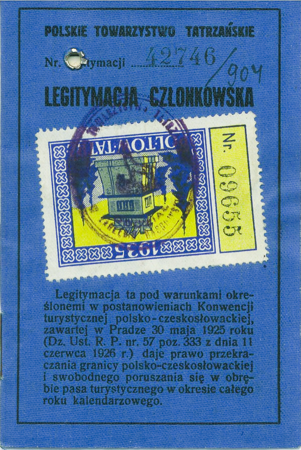 identity card of Polish Tatra Mountains Society, 1935